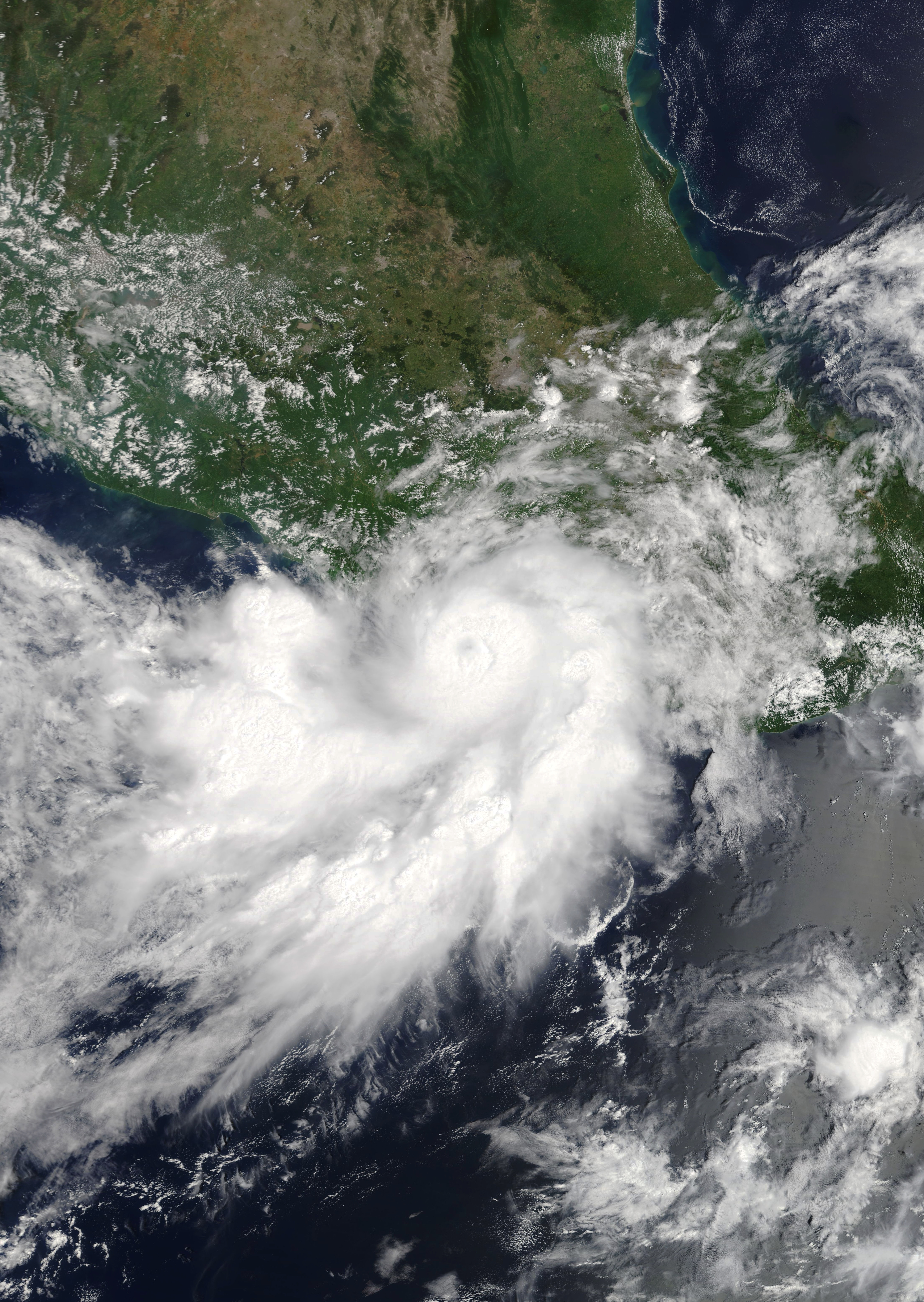 2017's Hurricane Max (16E) just off the southwestern coast of Mexico, about three hours prior to landfall. The system is very small, which allowed it to intensify quickly to its peak strength of 75 knots, displayed in this image.